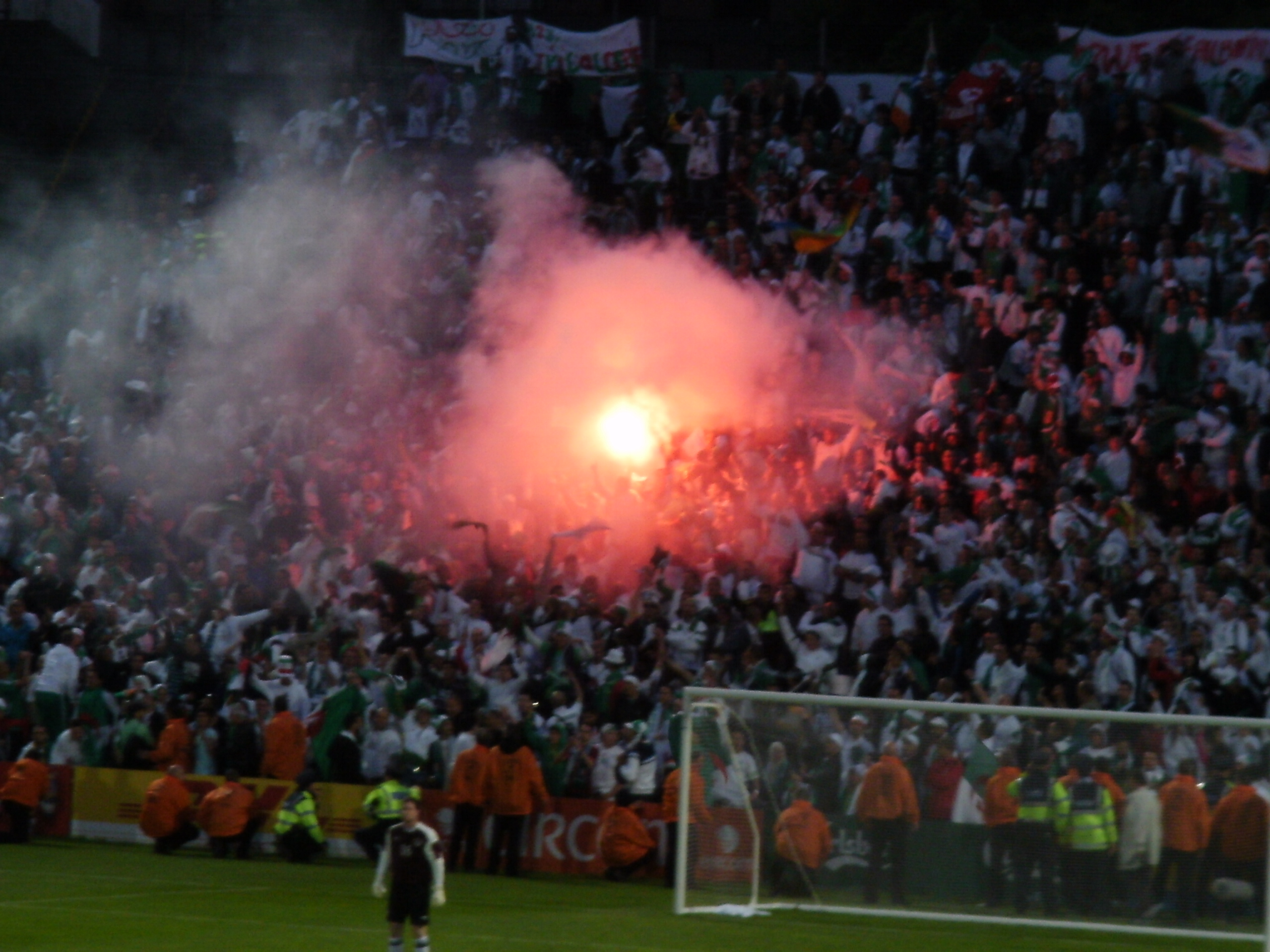 Algeria fans at a friendly vs. Republic of Ireland in Dublin.